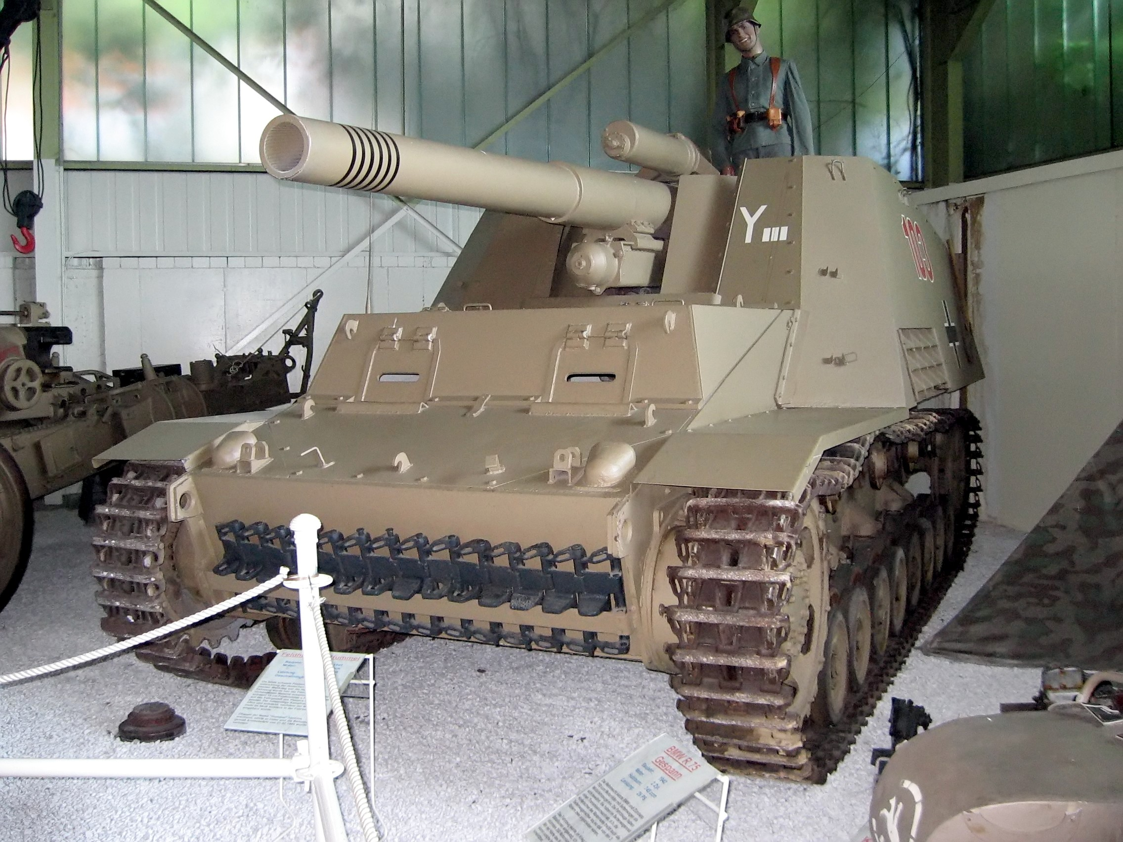 Panzerhaubitze "Hummel" at the Auto- und Technikmuseum Sinsheim / Germany. Picture taken in may 2006 by Christian Kath (me).